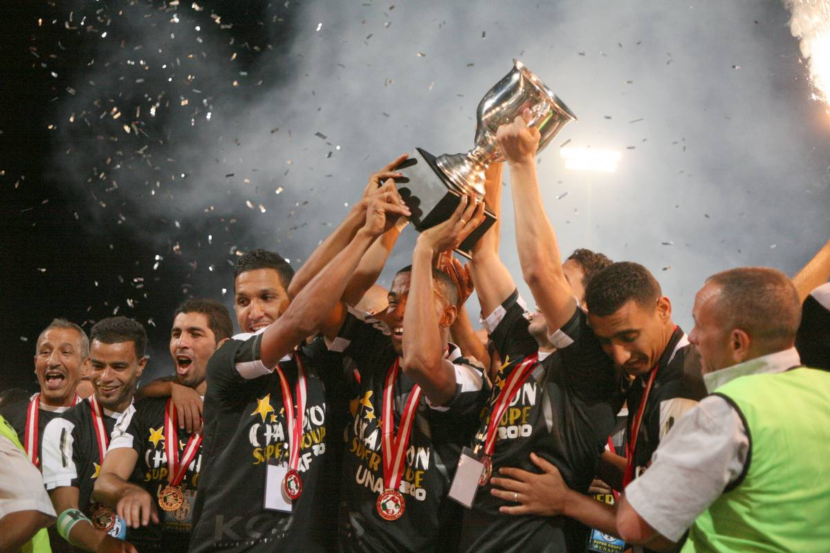 ES Setif celebrate their UNAF Winners' Cup victory over al-Nasr on Tuesday night.